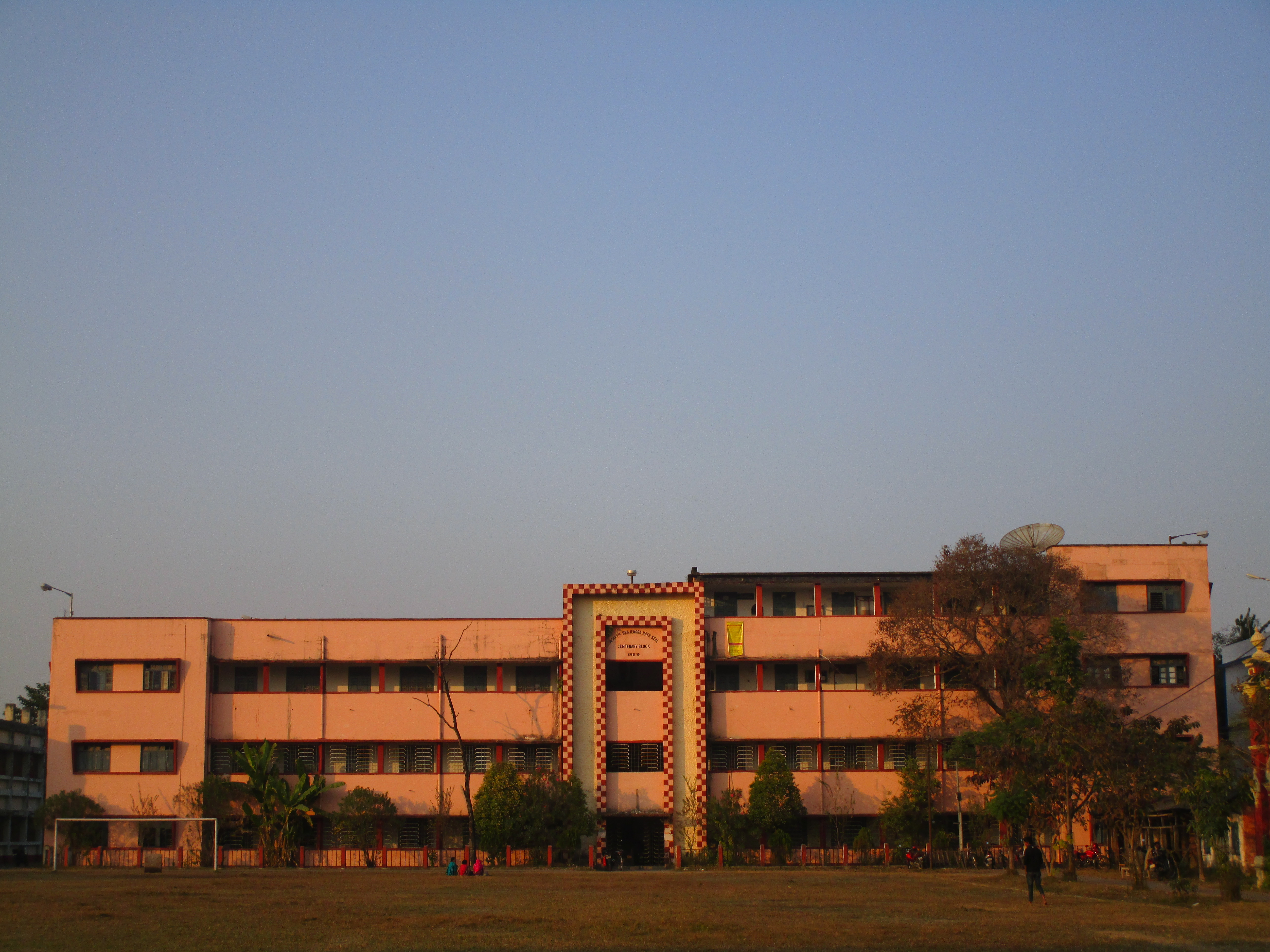 Brojendranath Shil College Building at Coochbehar town.